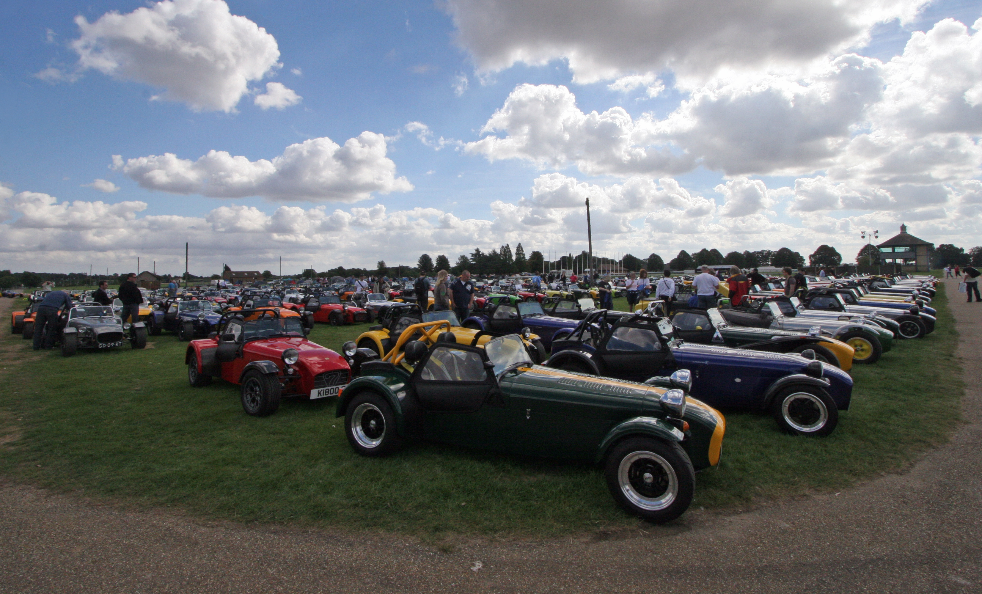 The organisers had all the Sevens parked together and all other cars parked elsewhere.